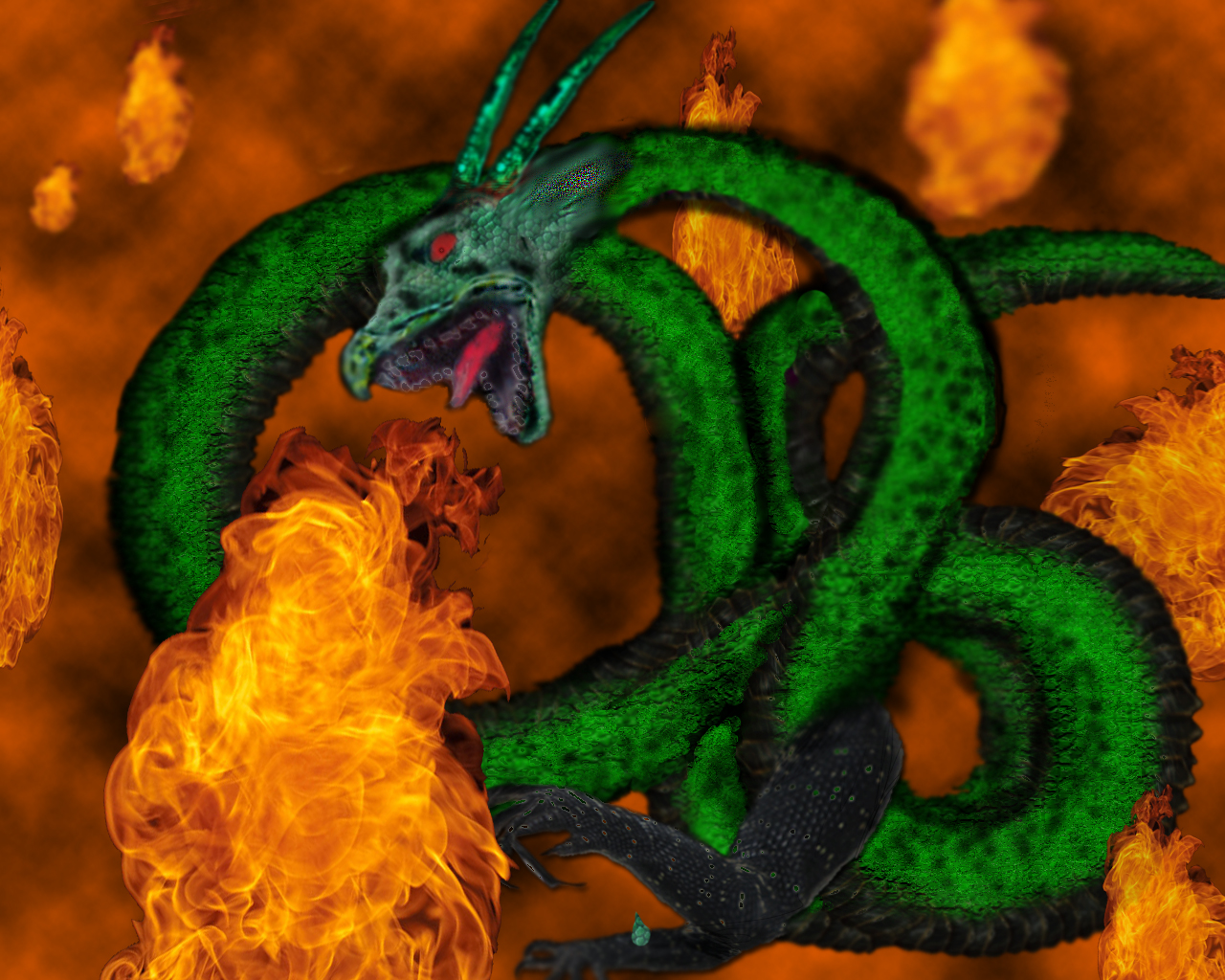 Green dragon flying through flames